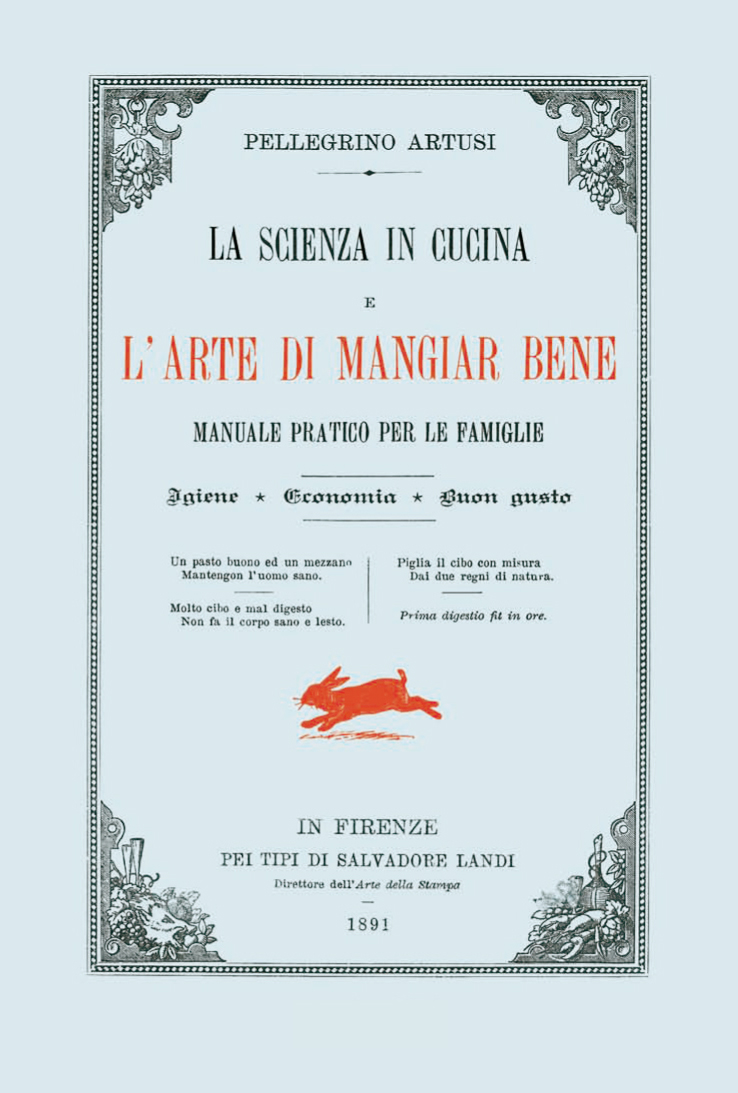 Pellegrino Artusi-La scienza in cucina e l'arte di mangiar bene (1891)